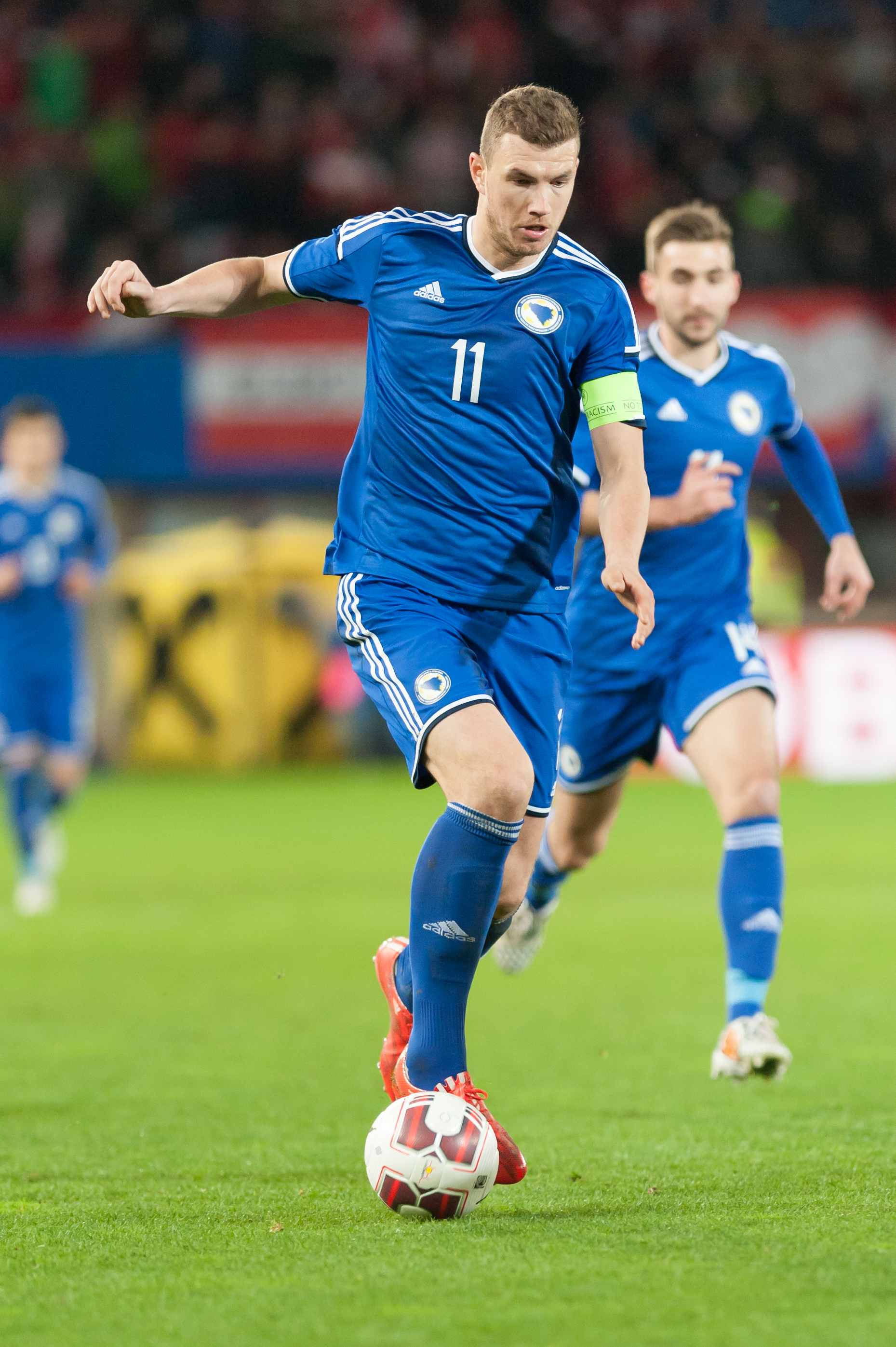 International friendly Austria vs. Bosnia and Herzegovina, 2015-03-31, Vienna